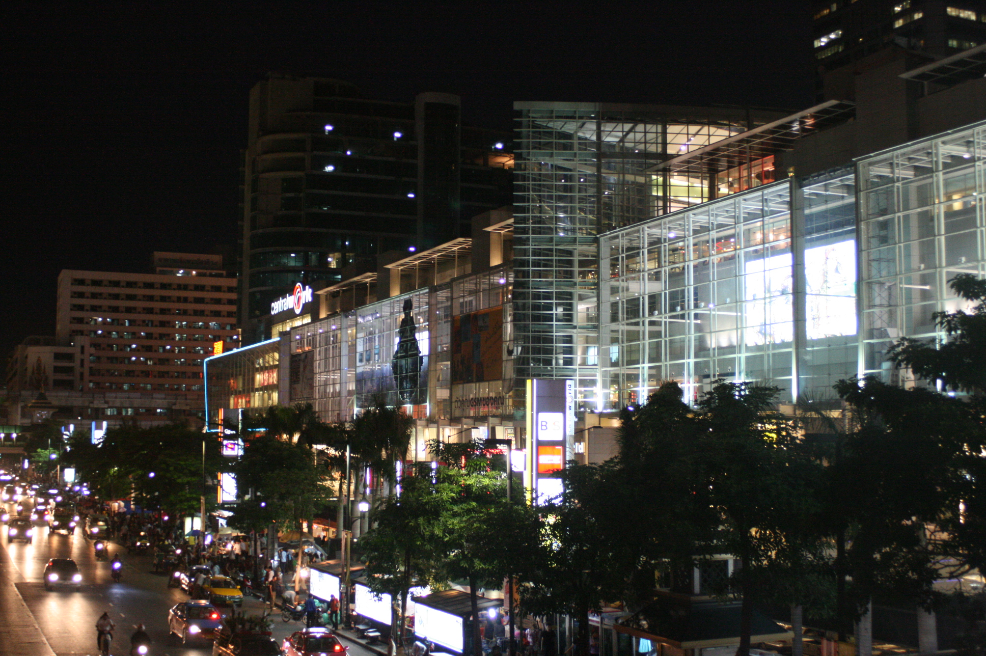 CentralWorld ,Bangkok,Thailand